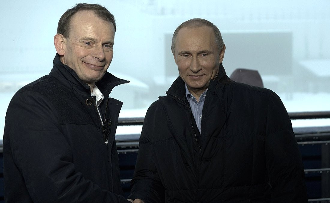 Vladimir Putin's interview about Olympics in Sochi (2014-01-17). With BBC reporter Andrew Marr.